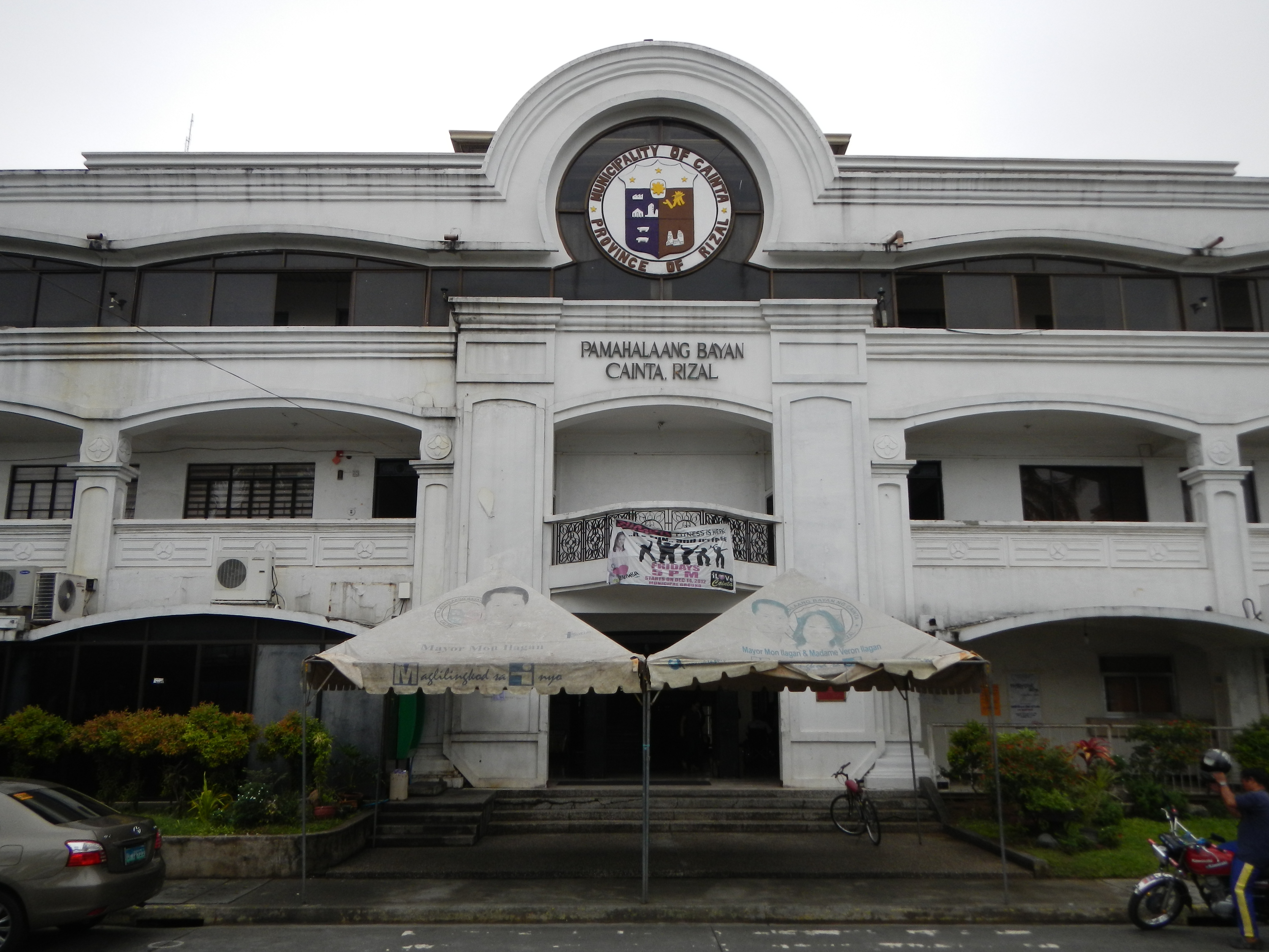 Town hall of Cainta, Rizal (Rizal Technical Education and Skills Development Center (TESDA IV, Cainta, Rizal); MAY-AKDA Town Library (Santo Domingo, Cainta, Rizal); Halls of Justice (Santo Domingo, Cainta, Rizal); Jose Rizal monument (Municipal Compound, Cainta, Rizal); People's Center (Municipal Compound, Cainta, Rizal); Francisco Pagkatipunan Felix monument (Municipal Compound, Cainta, Rizal); Andres Bonifacio monument (Municipal Compound, Cainta, Rizal); Francis Burton Harrison; Zonta Club of Greater Rizal I Zonta International; Barangay Santo Domingo 14°35'31"N 121°6'58"E San Andres (Poblacion) 14°34'33"N 121°6'54"E Cainta, Rizal.